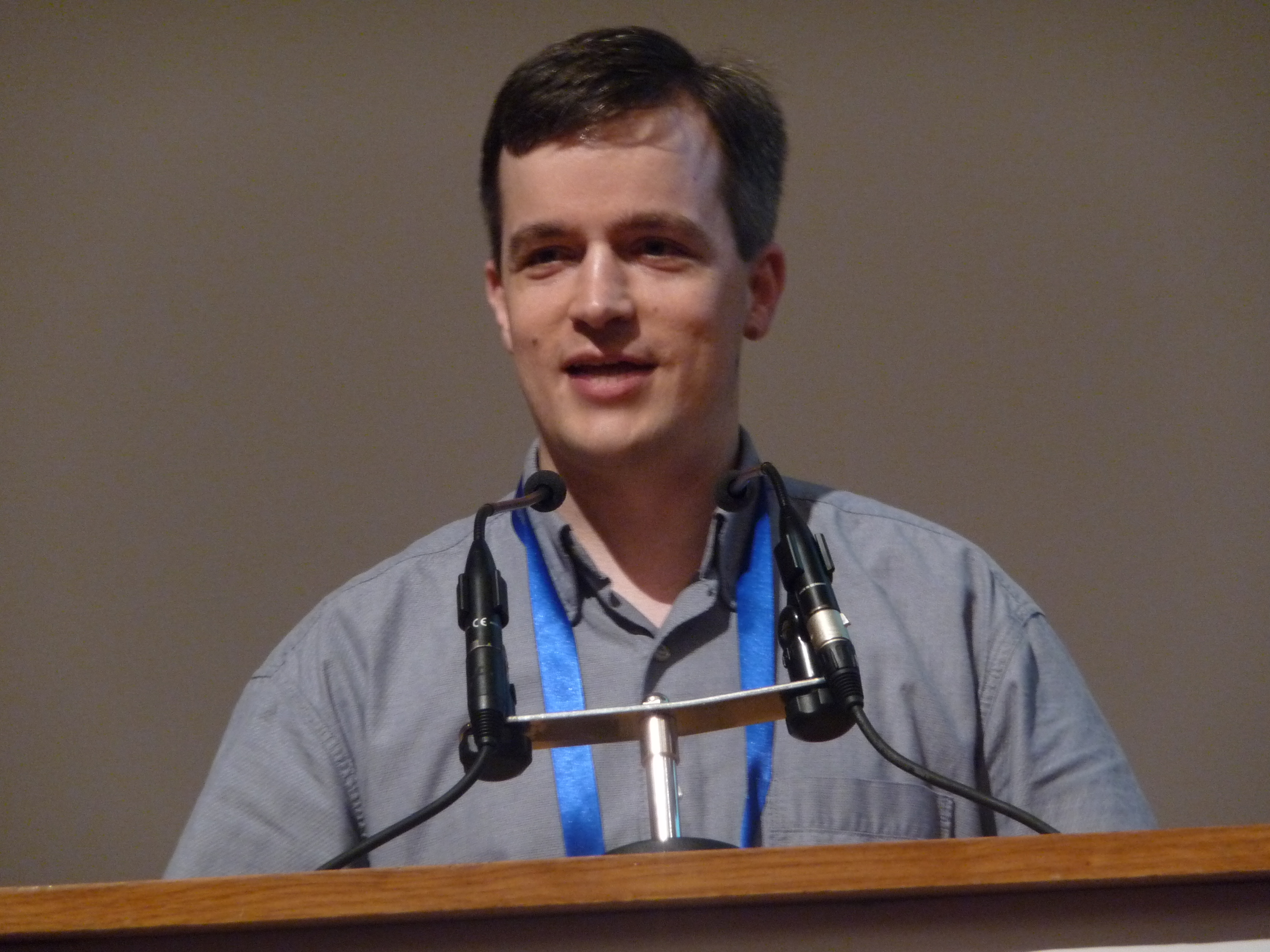 Michael Snow speaking at closing ceremony of Wikimania 2008.